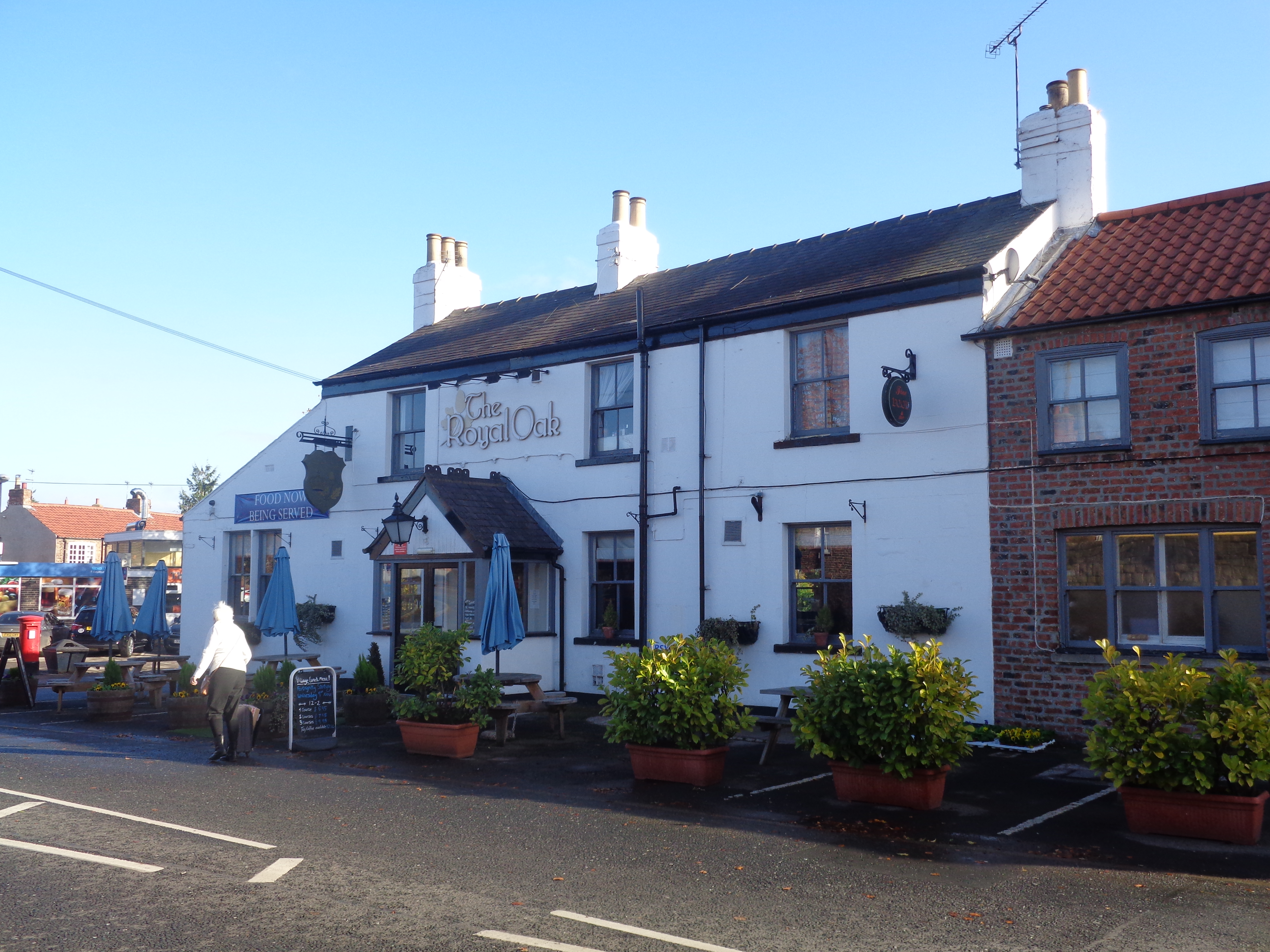 The Royal Oak, Main Street, Copmanthorpe, York, North Yorkshire. Taken on the morning of Friday the 4th of November 2016.